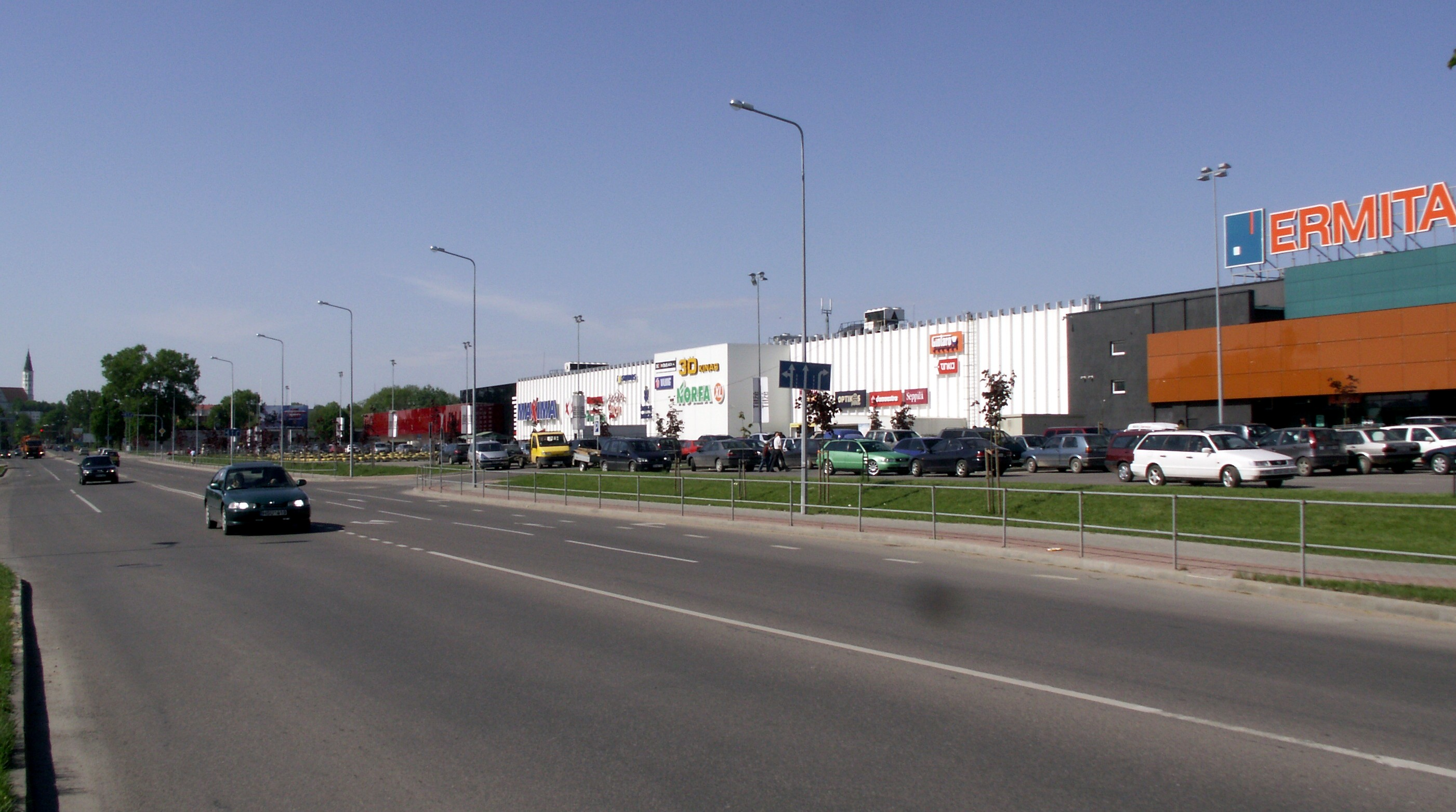 Market in Gubernija (Šiauliai), Lithuania